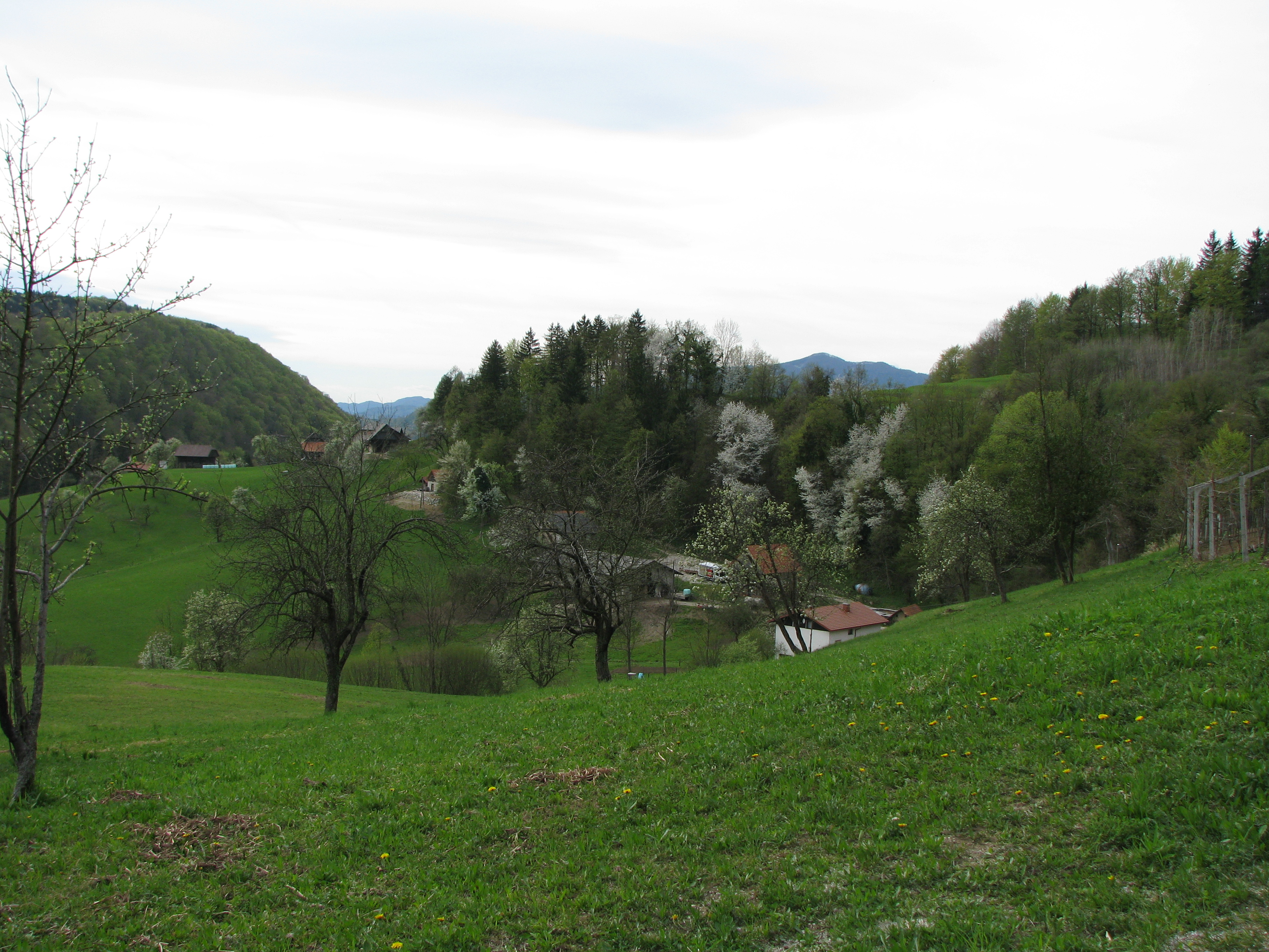 Turje, village in Hrastnik municipality, central Slovenia.